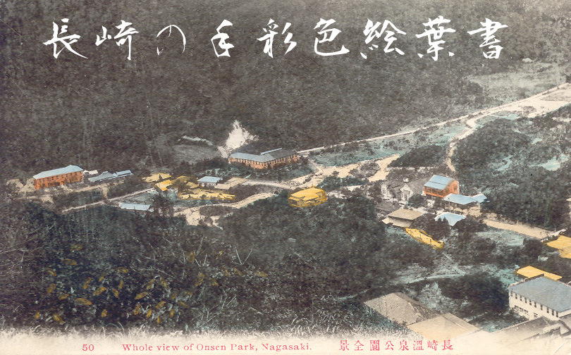 Japanese hand tinted postcard of Onsen Park in Nagasaki